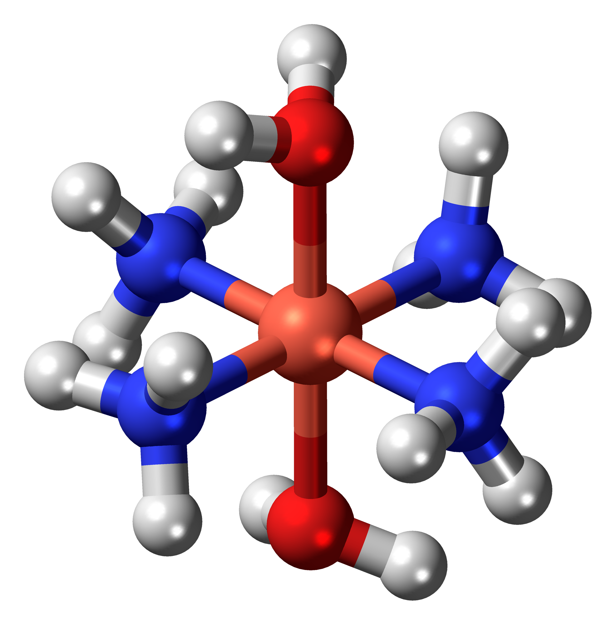 Ball-and-stick model of the tetraamminecopper(II) complex cation, also known as Schweizer's reagent, a compound found in A-level chemistry classes. It has a positive charge of 2. Colour code: Hydrogen, H: white Oxygen, O: red Nitrogen, N: blue Copper, Cu: pink-orange